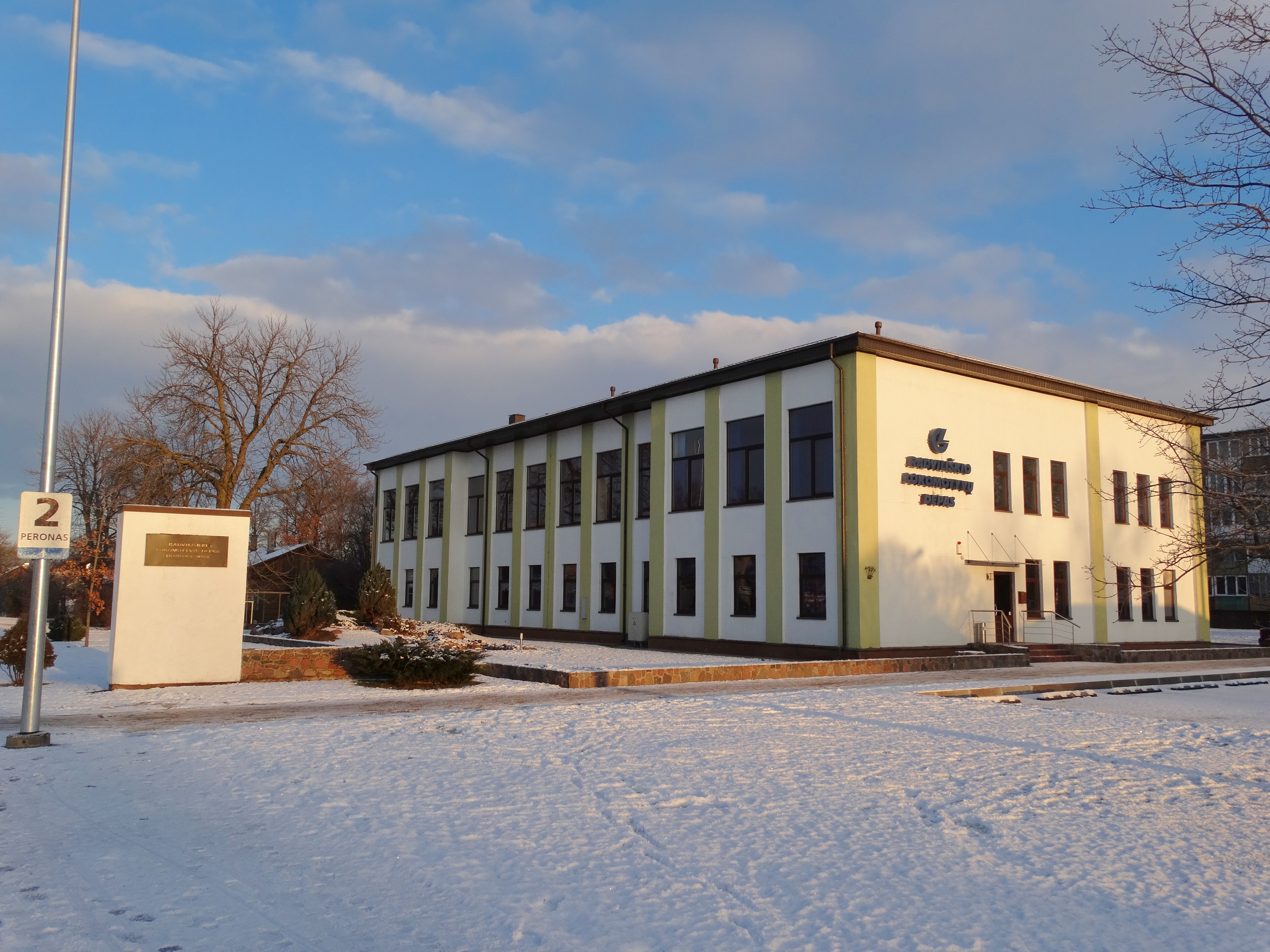 Railway depot, Radviliškis, Lithuania